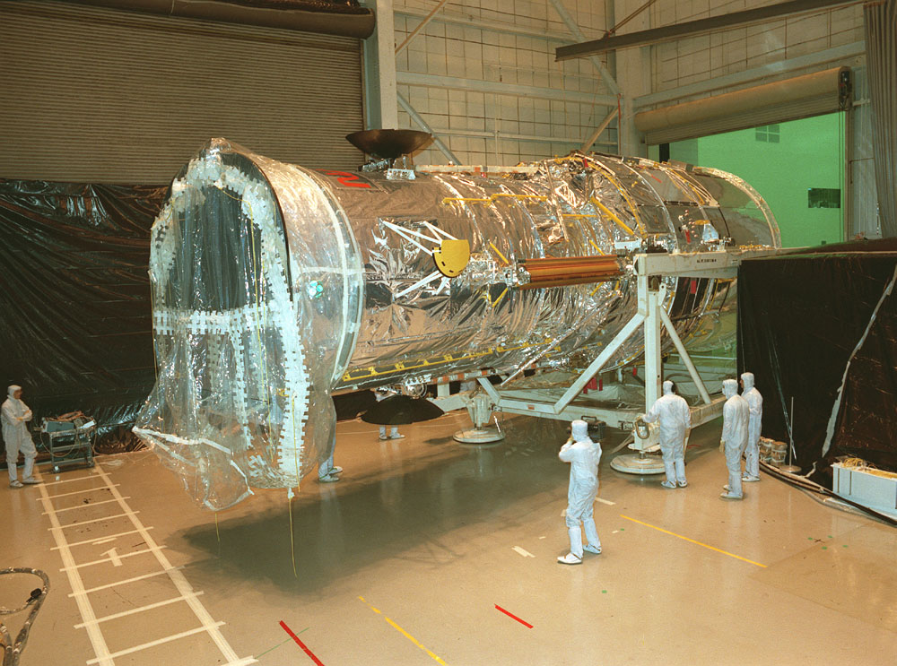 The Hubble Space Telescope (HST) being transferred from the Vertical Assembly Test Area (VATA) to the High Bay at the Lockheed assembly plant in preparation for transport to the Kennedy Space Center (KSC) after final testing and verification.